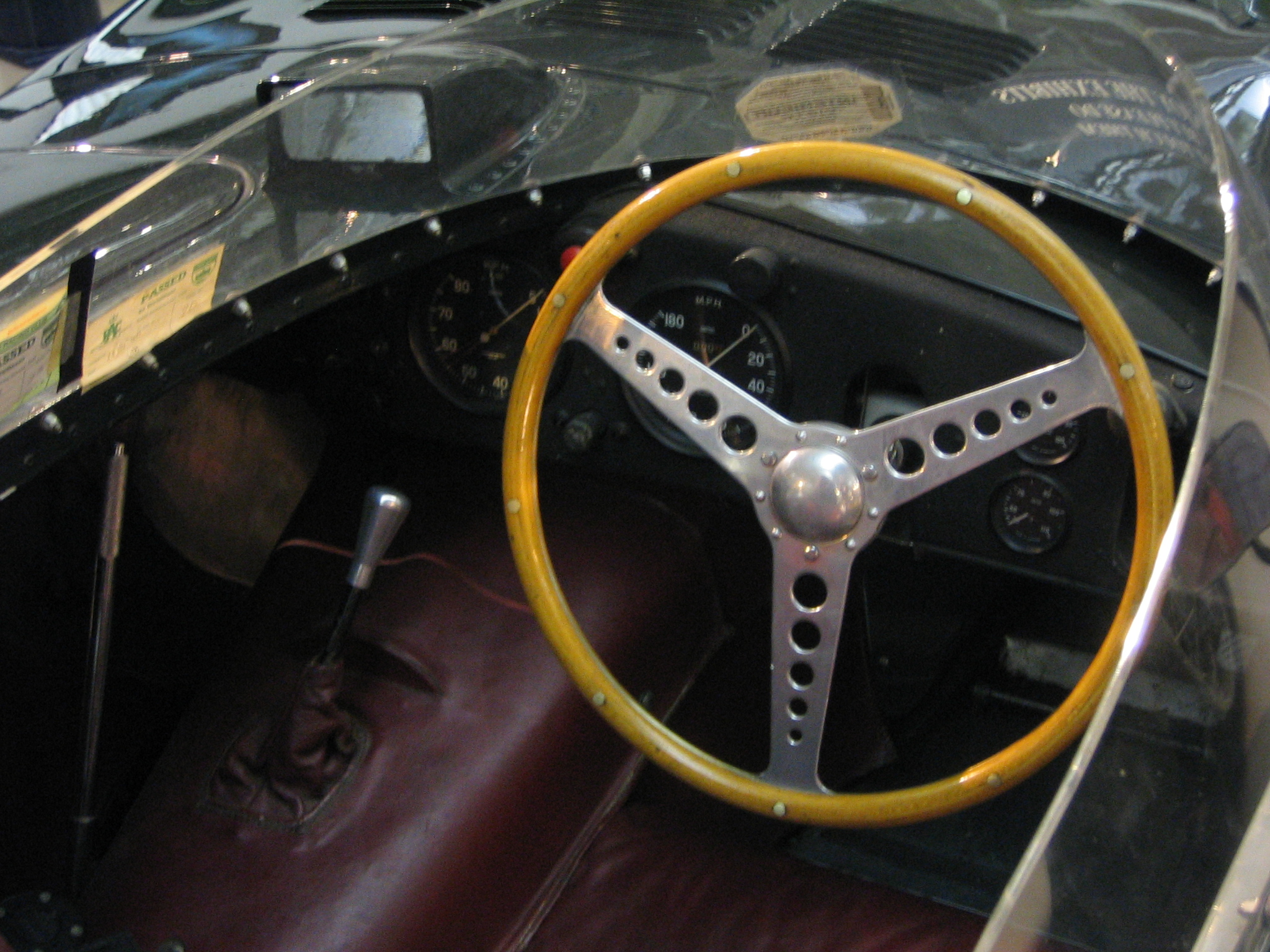 Jaguar D-type interior view